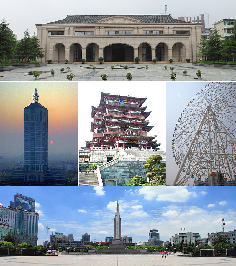 Nanchang, capital of Jiangxi Province, China. Clockwise from top: New Fourth Army Headquarter, Star of Nanchang, Bayi Square, Nanchang sunrise, Tengwang Pavilion.